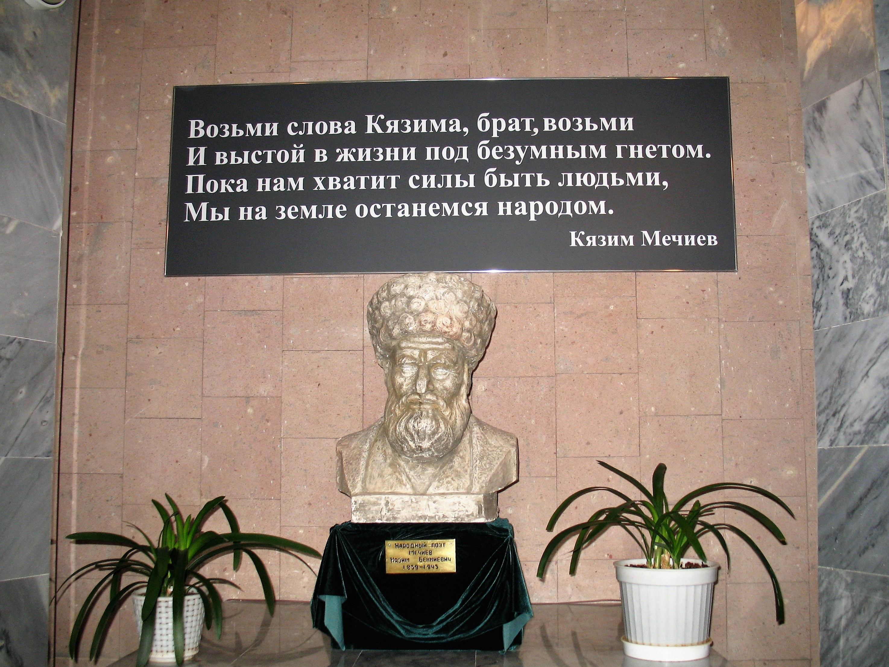 Victims of Deportation Memorial in Nalchik, Kabardino-Balkaria